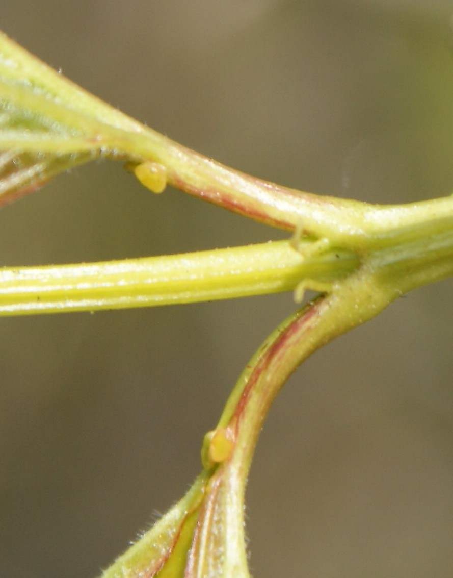 Viburnum opulus, Extrafloral nectaries